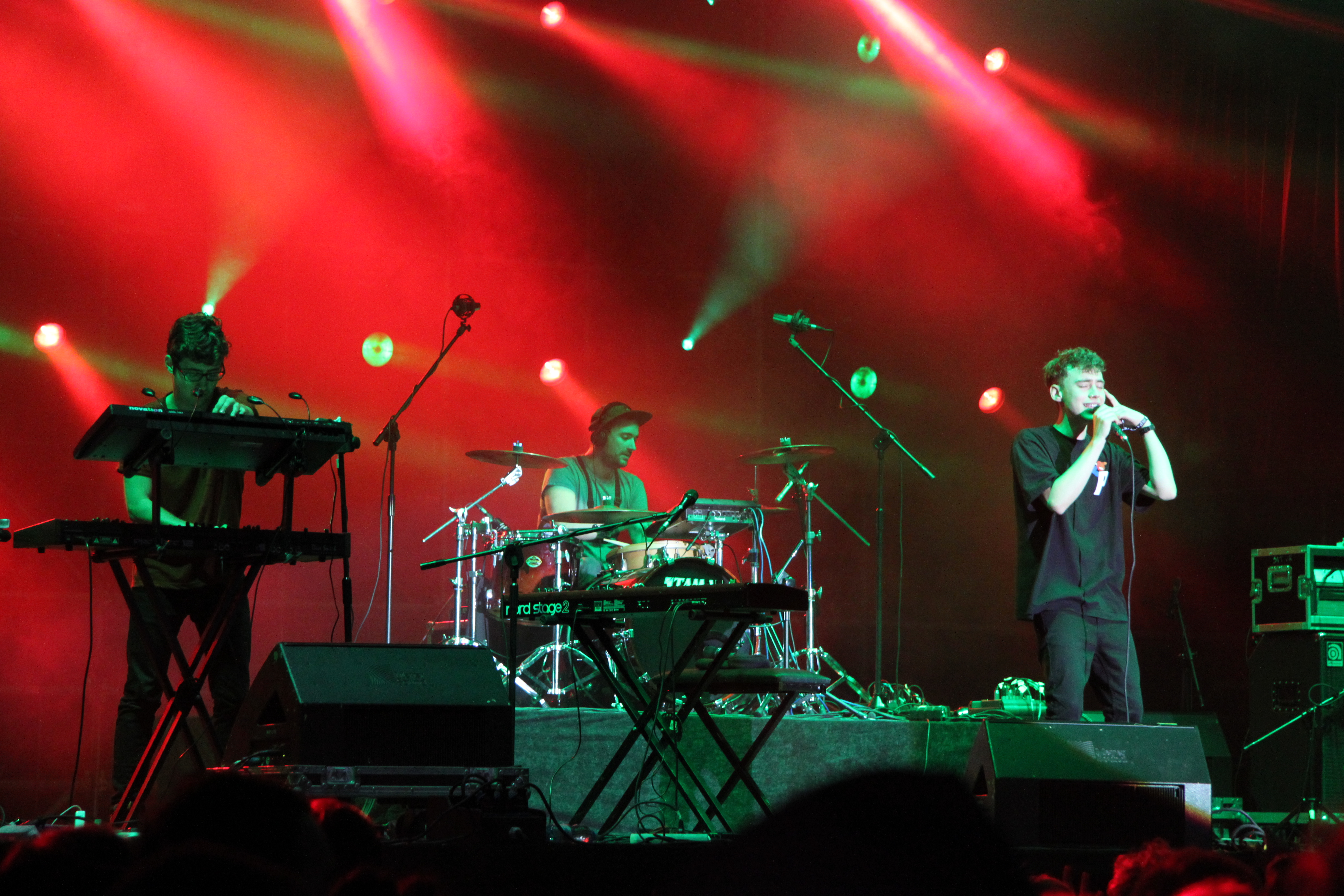 Years & Years during Tauron Nowa Muzyka 2014 festival.